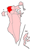 Map of Bahrain showing Al Mintaqah al Shamaliyah municipality. The municipalities were dissolved in 2002 and replaced with governorates.